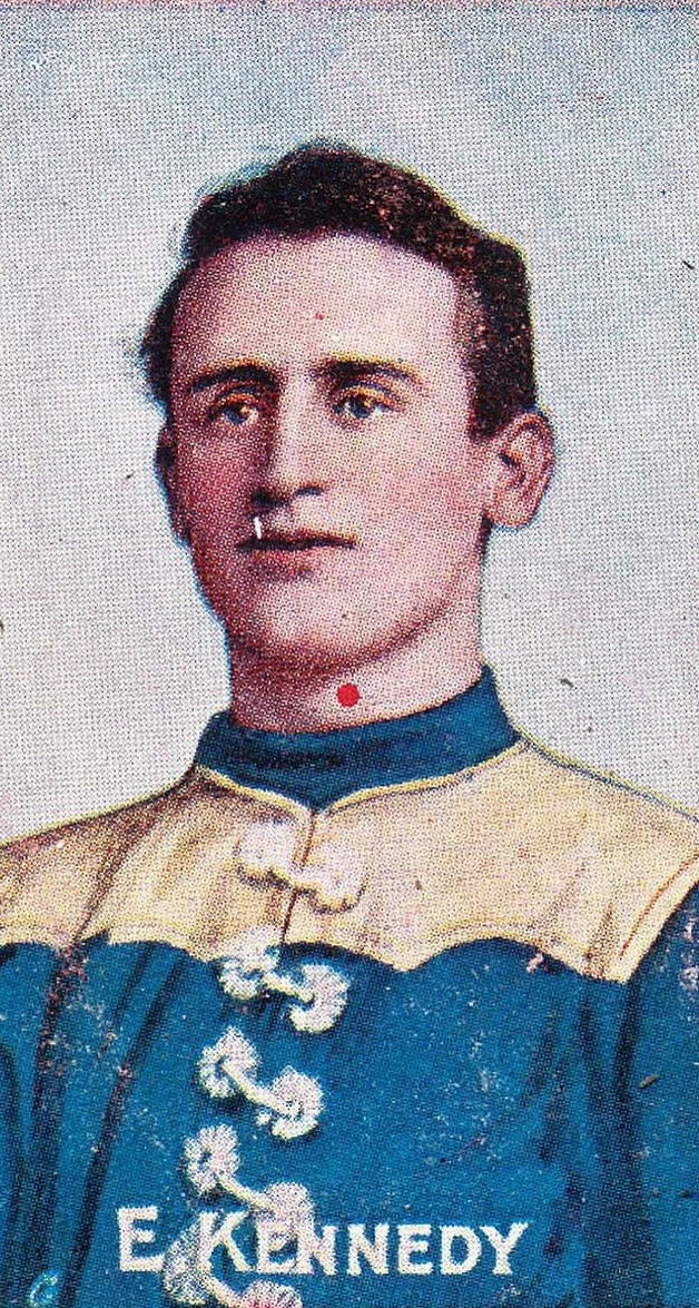 Cigarette card of Ted Kennedy from the Sniders & Abrahams 1908 series